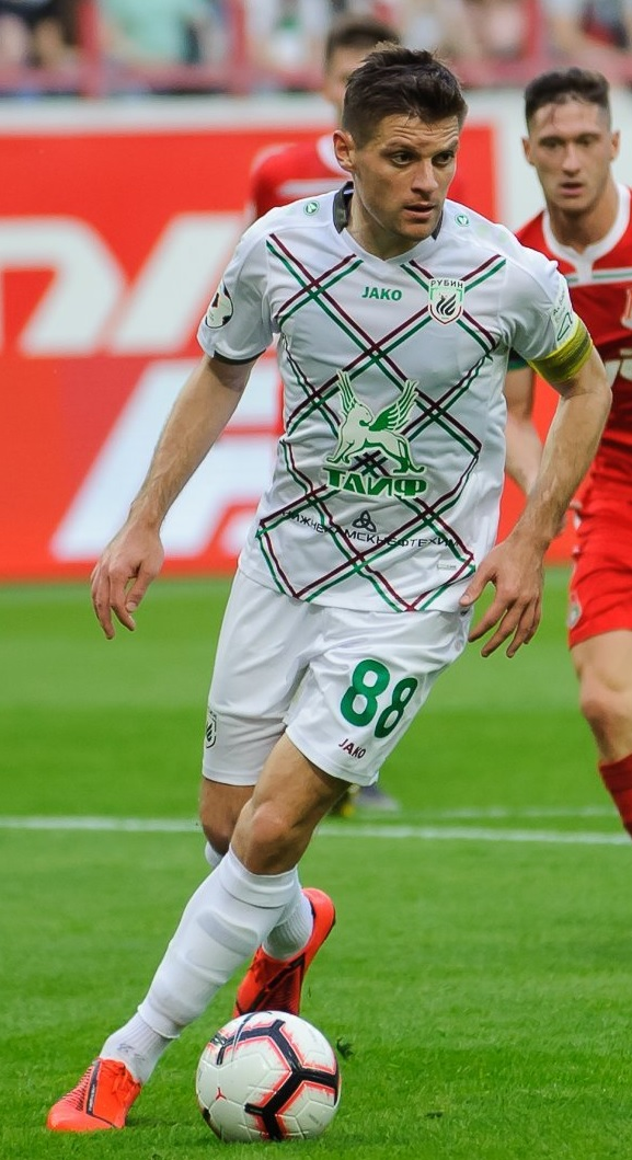 Ruslan Kambolov with FC Rubin Kazan in a game against FC Lokomotiv Moscow.